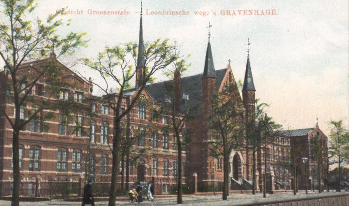 Huize Groenesteijn, roman catholic complex in The Hague, The Netherlands. Built by Nicolaas Molenaar sr. in 1892-1894. Demolished 1971.